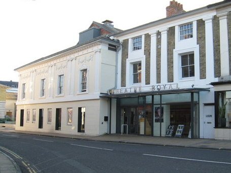 Theatre Royal - Jewry Street